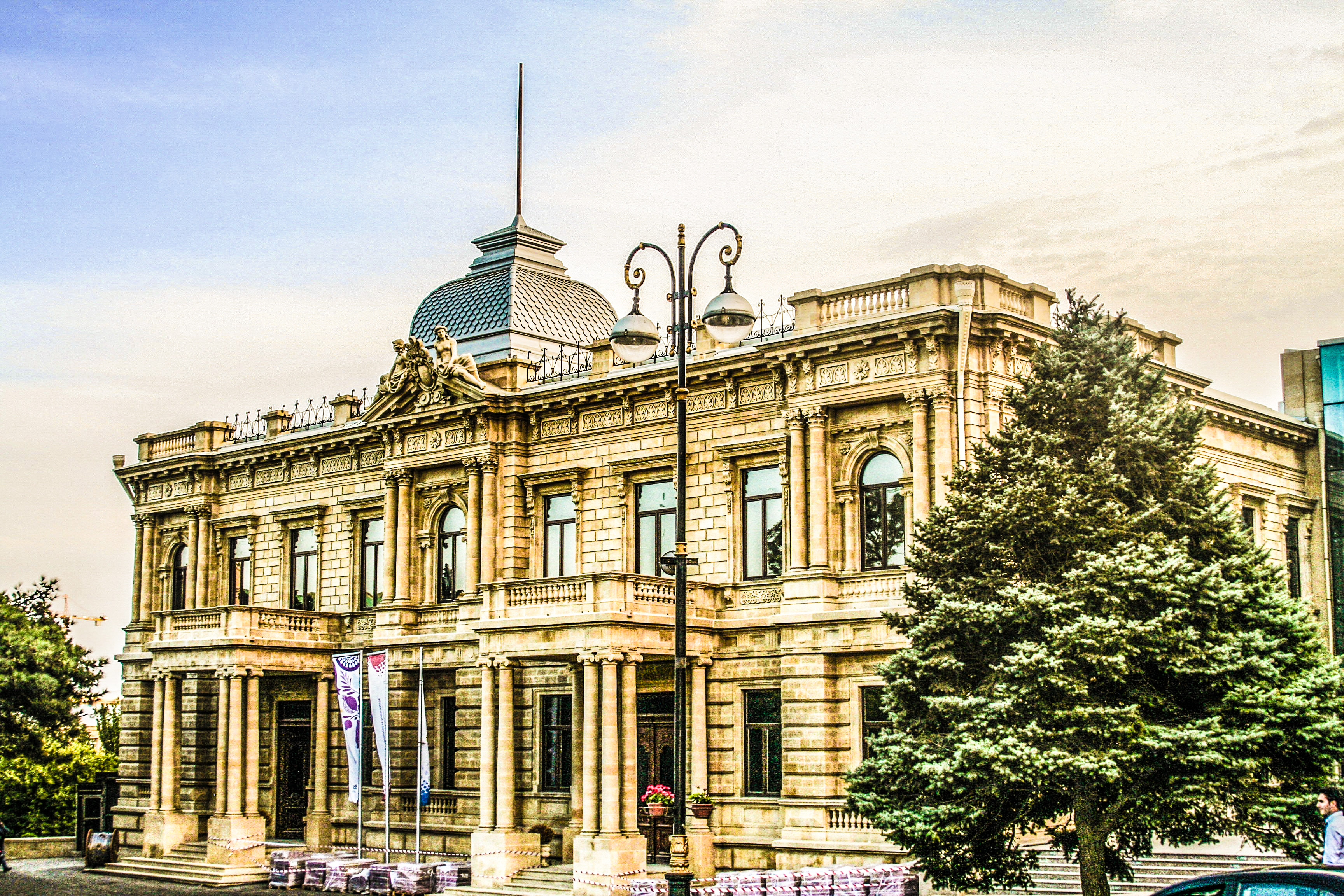 National Art Museum of Azerbaijan (de Burs House)